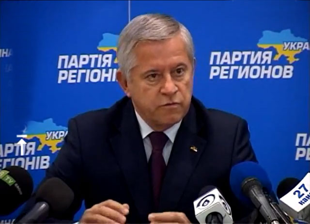 Anatoliy Kinakh, Ukrainian politician, former Prime Minister of Ukraine